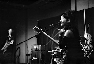 Kazha2014